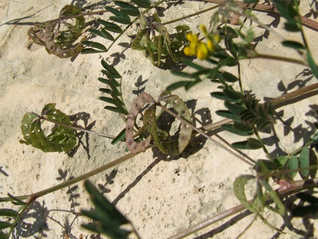 Hippocrepis multisiliquosa, "weird horseshoe plant", on Malta